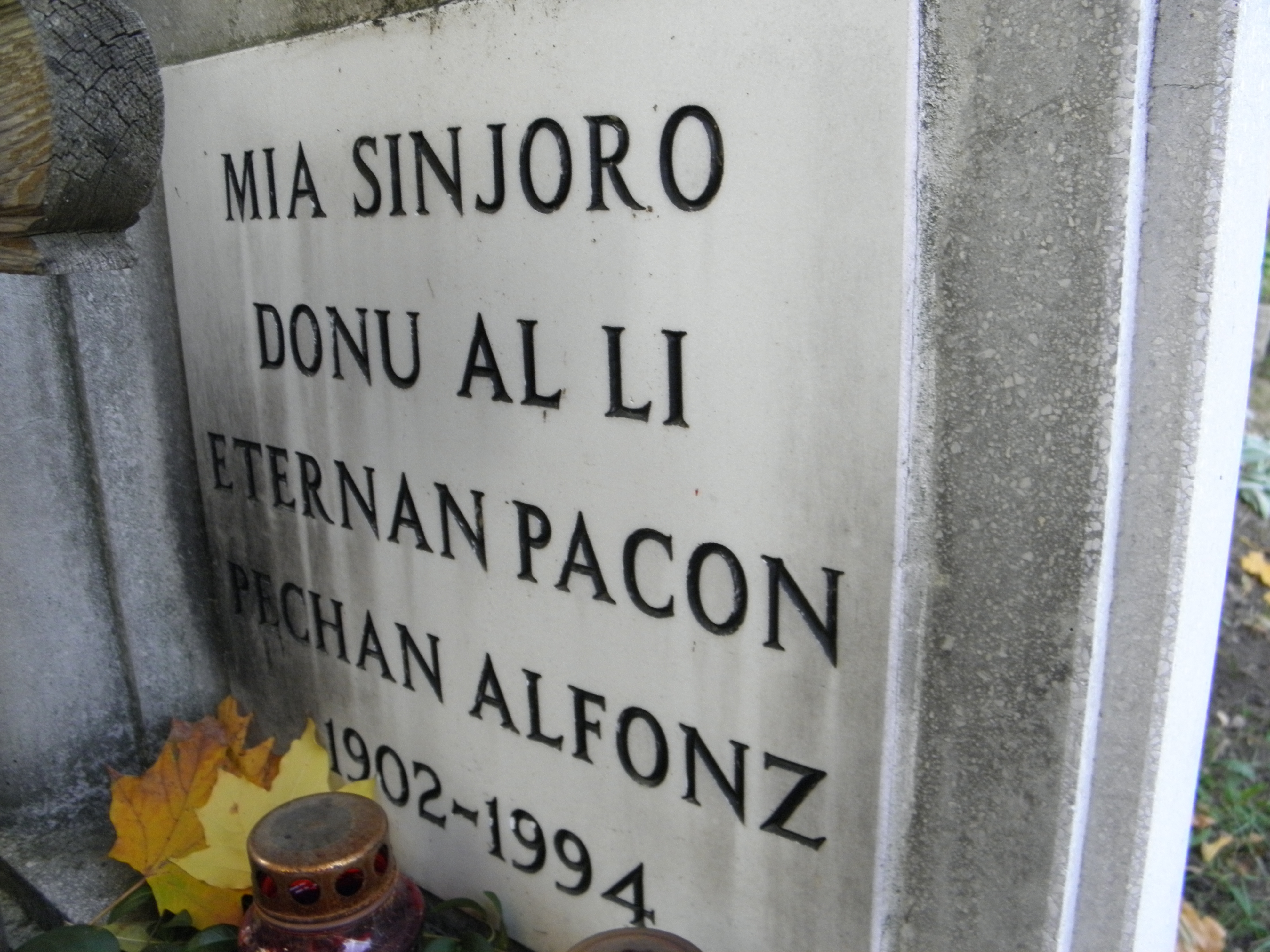 Alfonz Pechan's Esperanto tomb inscription